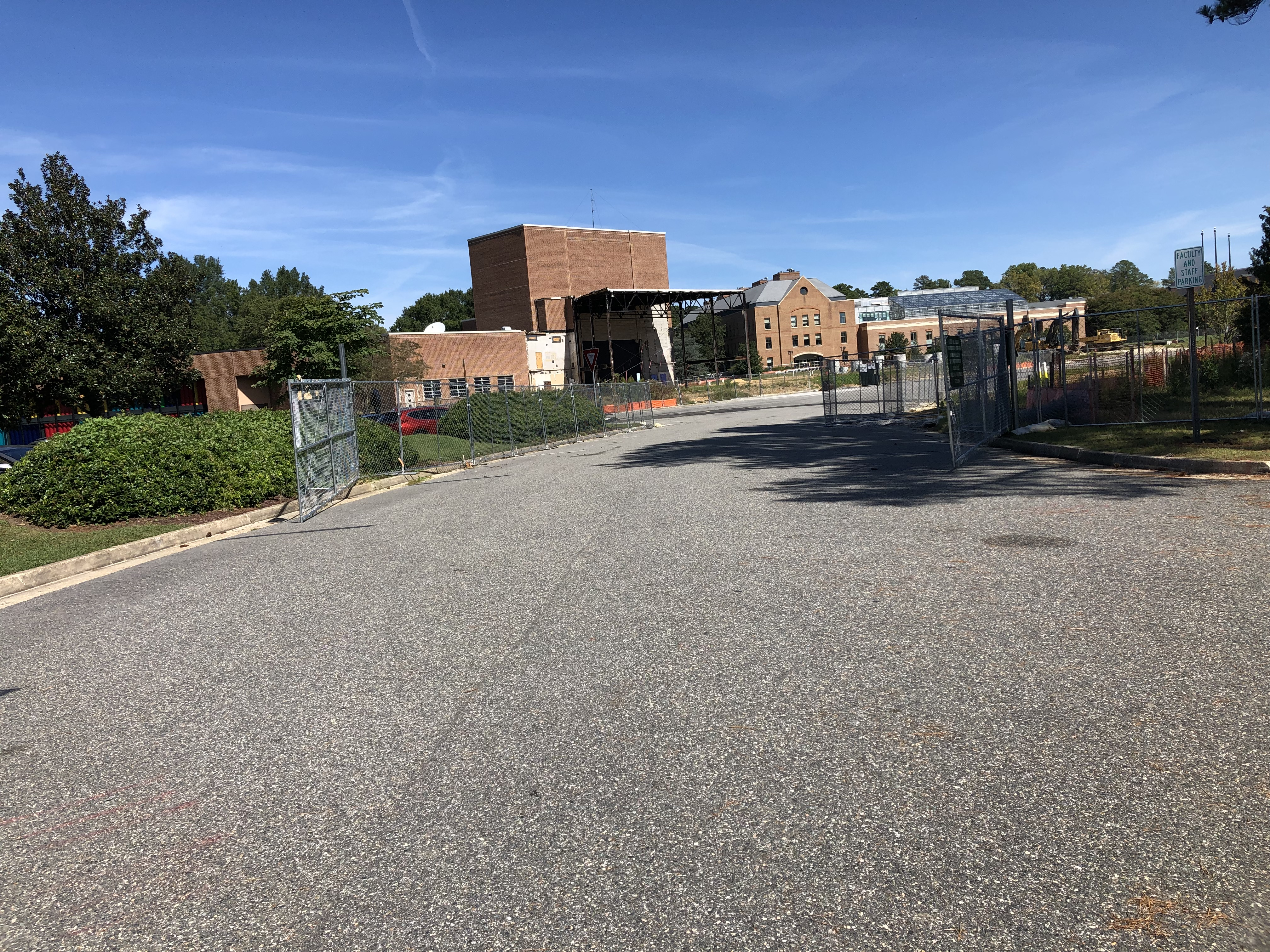 Phi Beta Kappa Memorial Hall, a performing arts center on the College of William & Mary's New Campus, began demolitions in 2019 after over 60 years as one of the largest buildings at the College. Demolitions were temporarily stopped after budget issues prevented the College from being able to fully pay for the project. The building is pictured here with its steel superstructure still visible.